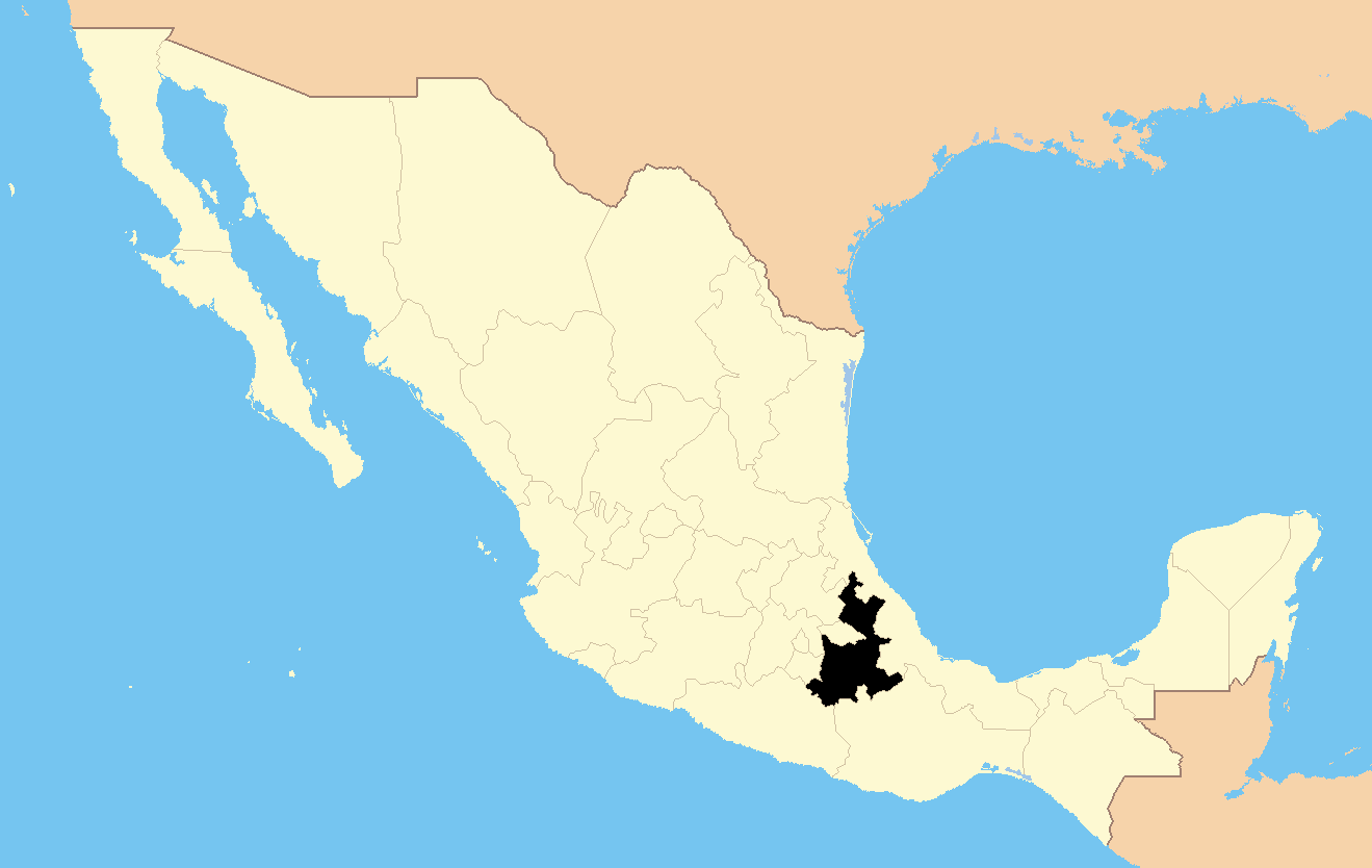 State of Puebla within Mexico